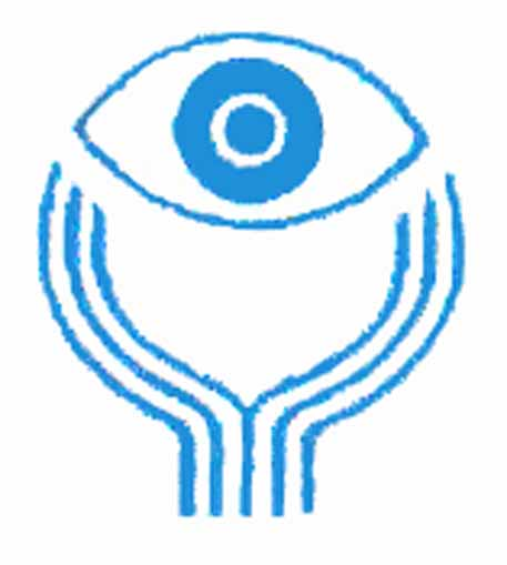 it is a monogram of Islamia Eye Hospital